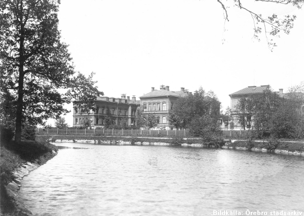 The main hospital Örebro Sweden 1903